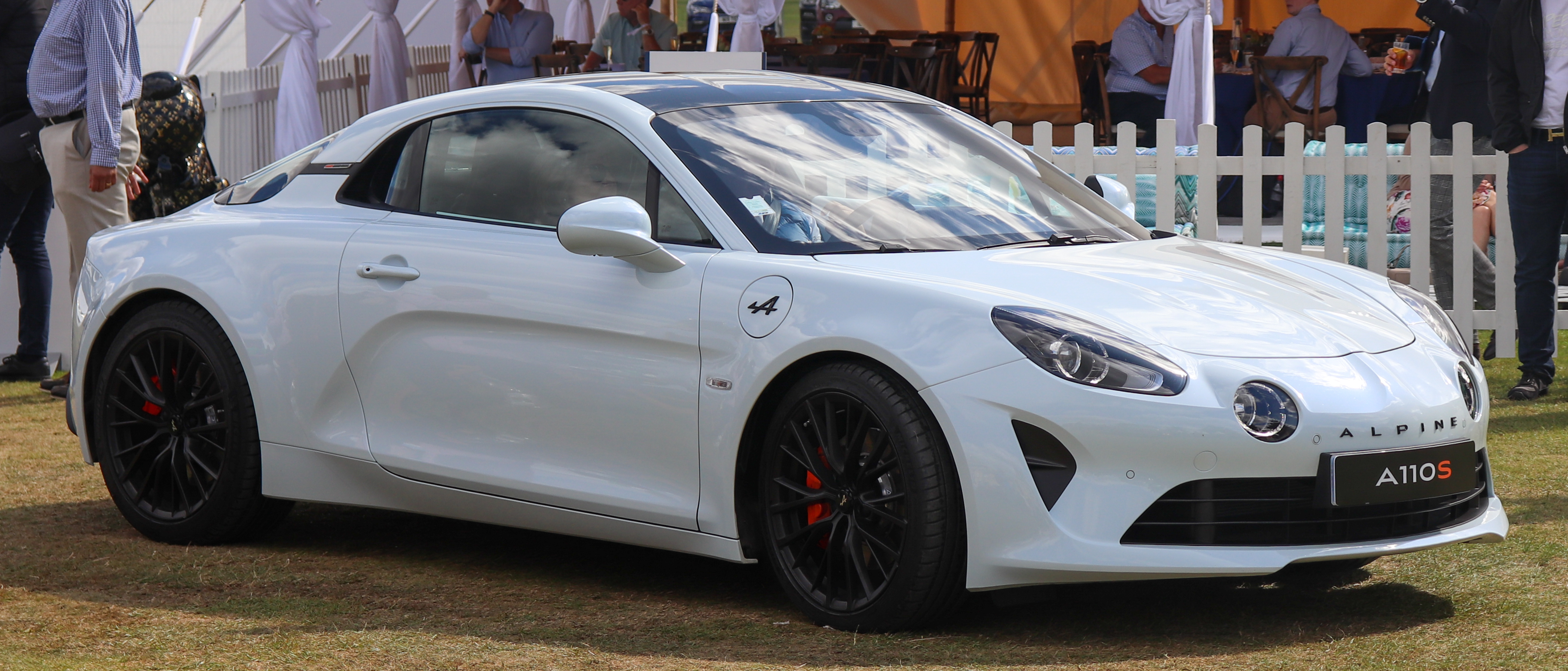 2019 Alpine A110 S 1.8 Taken at the Salon Privé Concours d'Elegance Classic Car Motor Show 2019, Blenheim Palace